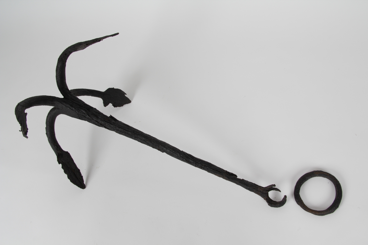 Four-armed anchor from W5 shipwreck